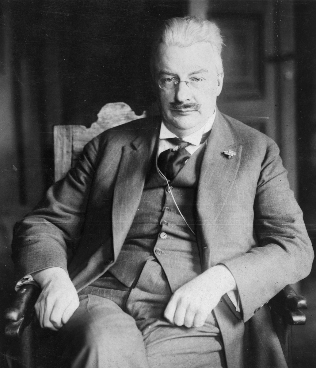 Norwegian theatre director Anton Heiberg (1878–1947) in the 1930s